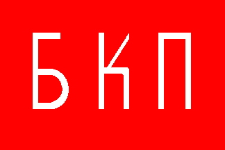 Logo of the Bulgarian Communist Party